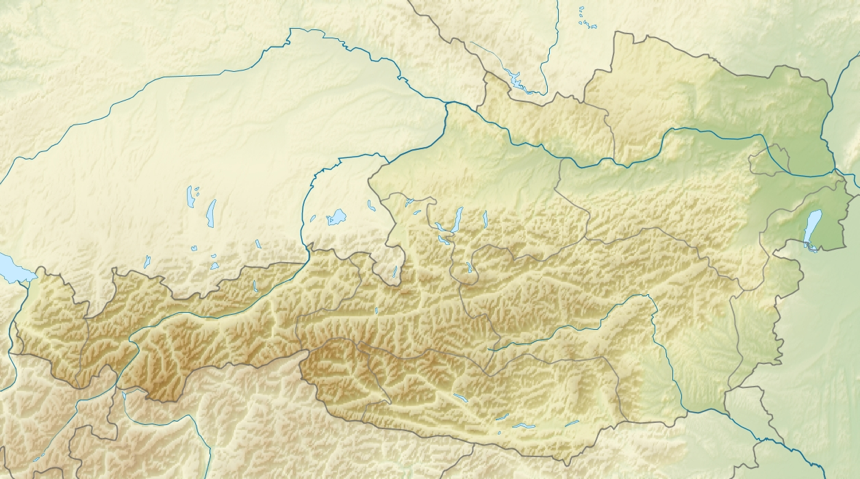 Location map of Austria Equirectangular projection, N/S stretching 150 %. Geographic limits of the map: N: 49.2° N S: 46.3° N W: 9.4° E E: 17.2° E Made with Natural Earth. Free vector and raster map data @ .